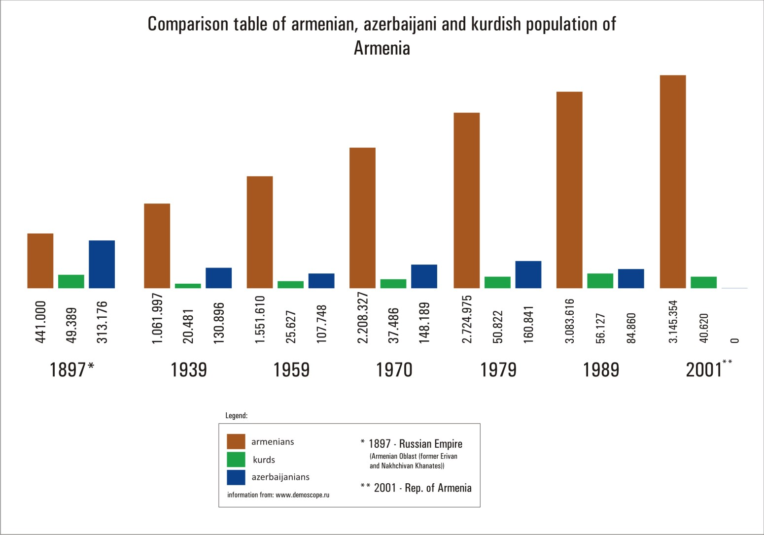 comparison_table_of_armenian_azeri_kurdish_population_of_armenia - information taken from